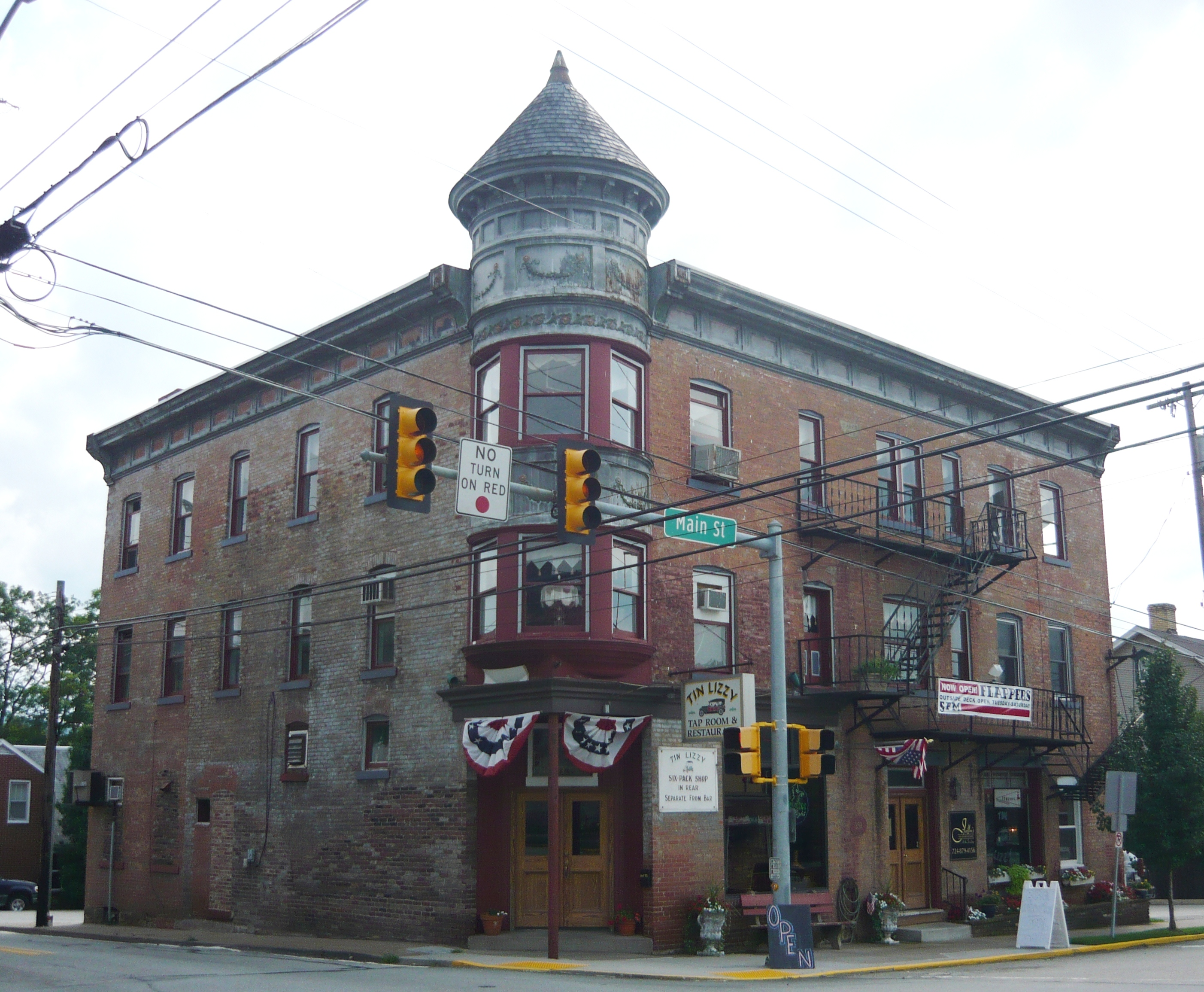 Tin Lizzy, 259 Main Street (corner of Latrobe Street), Youngstown, Westmoreland County, Pennsylvania. Formerly "Youngstown Hotel", and also "Ames Hotel". A carved stone in the facade states "1905", while another source dates the building to 1895, built on the foundation of a 1750s structure.